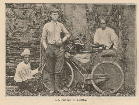 John Foster Fraser with his bike in Burma.